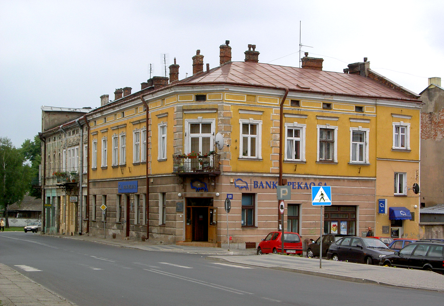 Radymno, Poland • Centrum